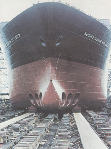 USNS Glomar Explorer (T-AG-193) launch, 1 November 1972.